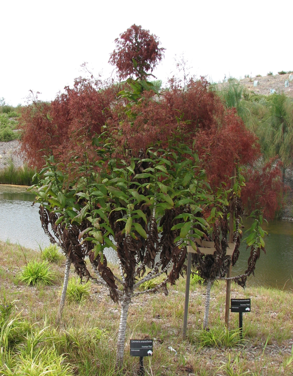 Calomeria amaranthoides (cultivated, labelled ) Cranbourne Botanic Gardens, Victoria, Australia